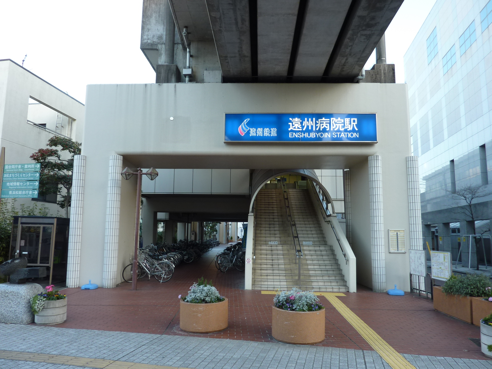 Enshubyoin Station on Enshu Railway. (2-21,Hayaumacho,Naka-ku,Hamamatsu-shi,Shizuoka-ken,JAPAN)